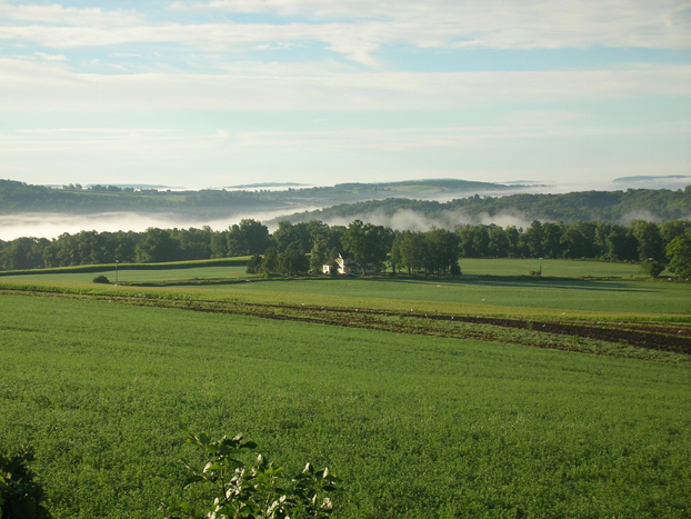 Tom McCall